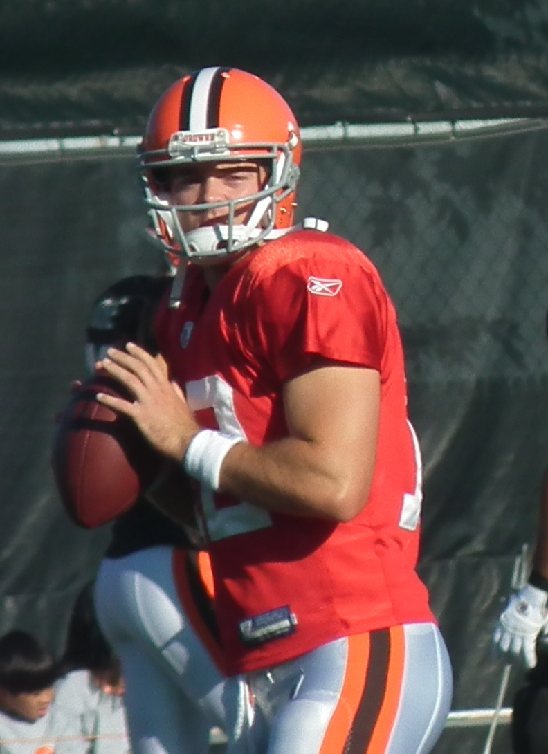 Colt McCoy during Cleveland Browns training camp at Baldwin-Wallace College